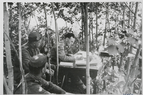 The Field Court Martial of the Finnish 15th Brigade in July 1944. The image likely shows the three members of the court: the legally educated member, the officer member and the member with an NCO or a rank-and-file rank. One of 300 images declassified by the Finnish government in 2006 showing the Winter War and Continuation War against the Soviet Union from 1939-45.